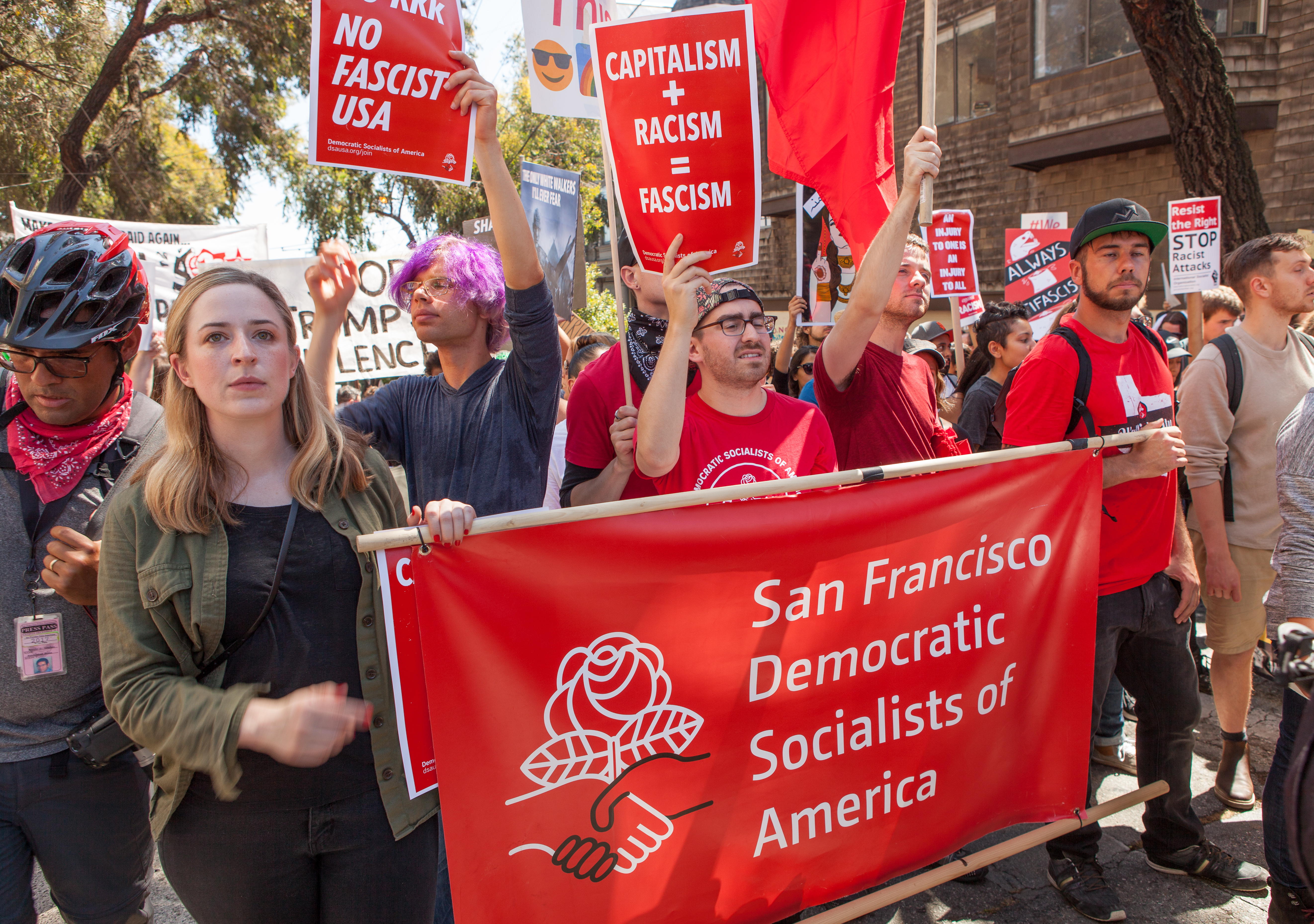 Protesters hold a banner for the San Francisco Democratic Socialists of America at a Patriot Prayer counter-protest in San Francisco.